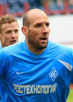 Czech striker Jan Koller